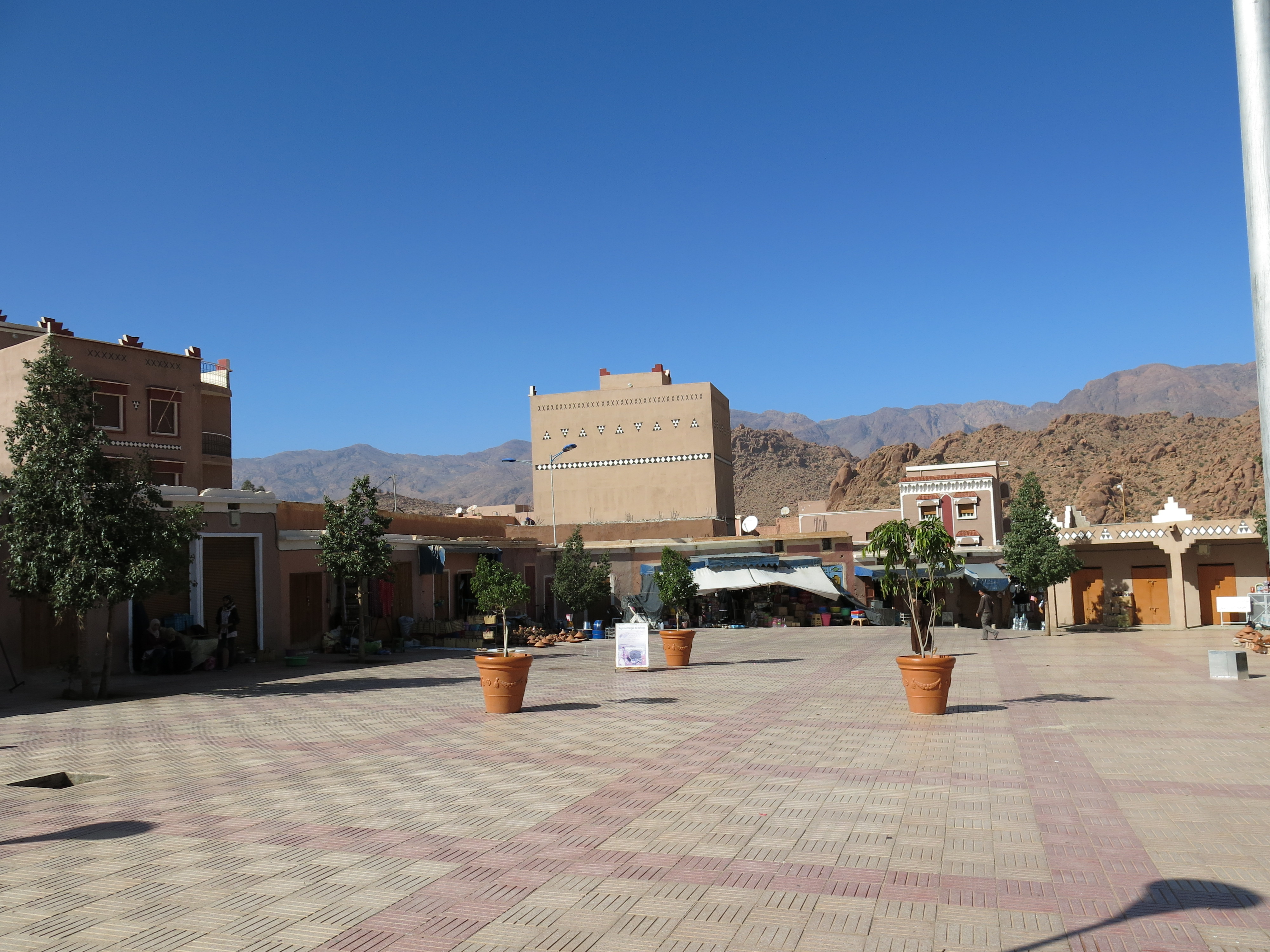 Square in Tafraout